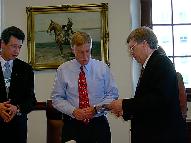 Russians presents their social project to Maine governor Angus King